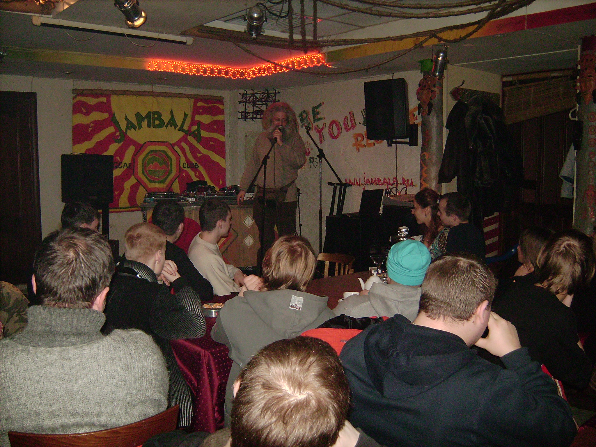 Folk-writer and storyteller Dmitry Gajduk performing in St. Petersburg in Feb 2010